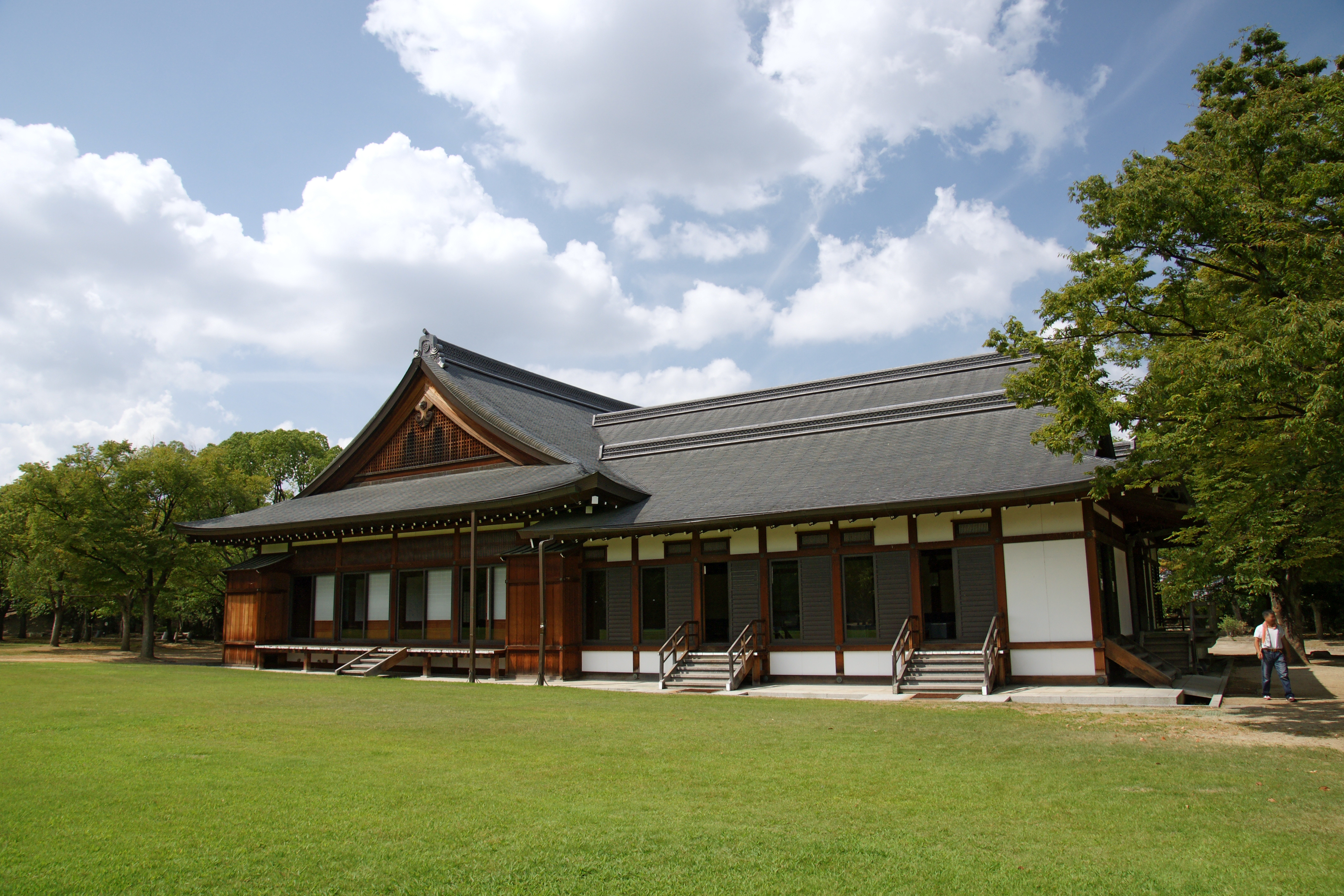 Nishinomaru Garden of Osaka Castle in Chuo-ku, Osaka, Osaka prefecture, Japan